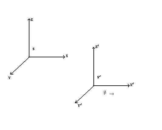 This is a picture about inertial frame reference I draw this picture myself